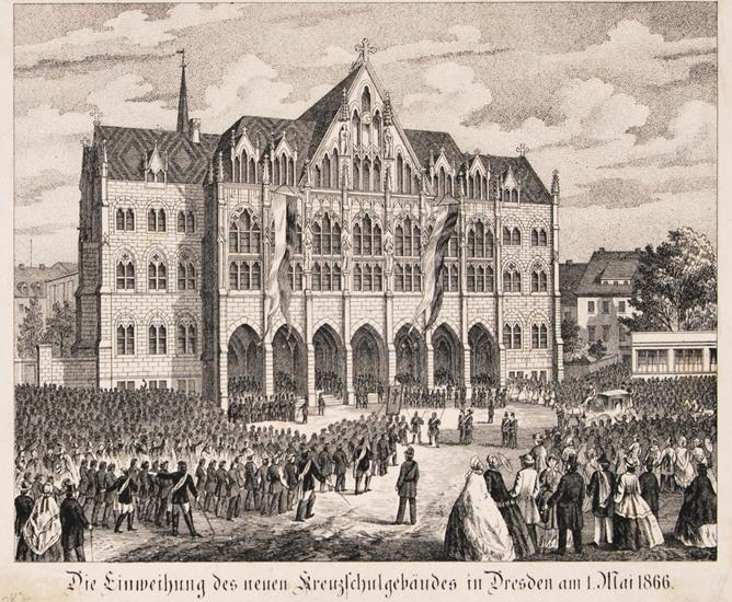 Opening of the new Kreuzschule building in Dresden on May 1st, 1866.